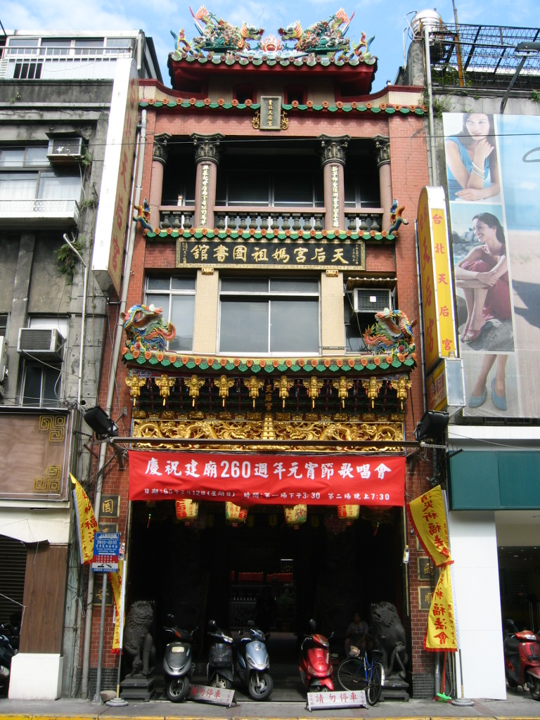 Taipei Mazu Temple.